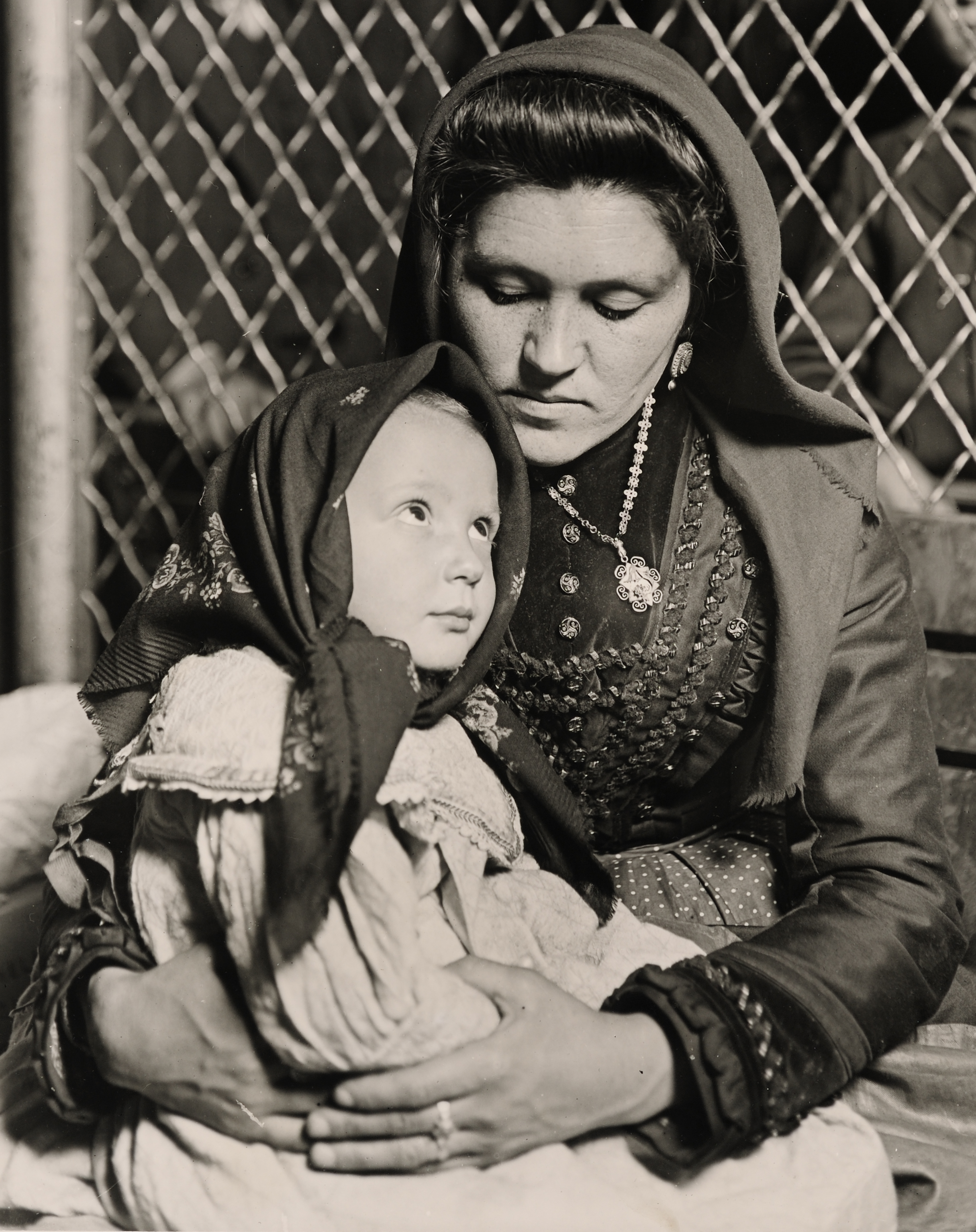 Hine, Lewis Wickes Portrait of an Italian mother and child. Just arrived at Ellis Island along with hundreds of other immigrants that day. In search of a better life. USA 1905. "Lewis Hine, Passionate journey. Photographs 1905-1937". This image, an iconic and evocative mother and child image, portrays the uncertainty of arriving in a strange land, and a mother's need to ensure the safety of her child. These people were amongst the hundreds to arrive at Ellis Island that day – and one of thousands that arrived in the early years of the new century, looking for a better life in a new country. Hine’s determination of depict their individualism however, is unwavering.